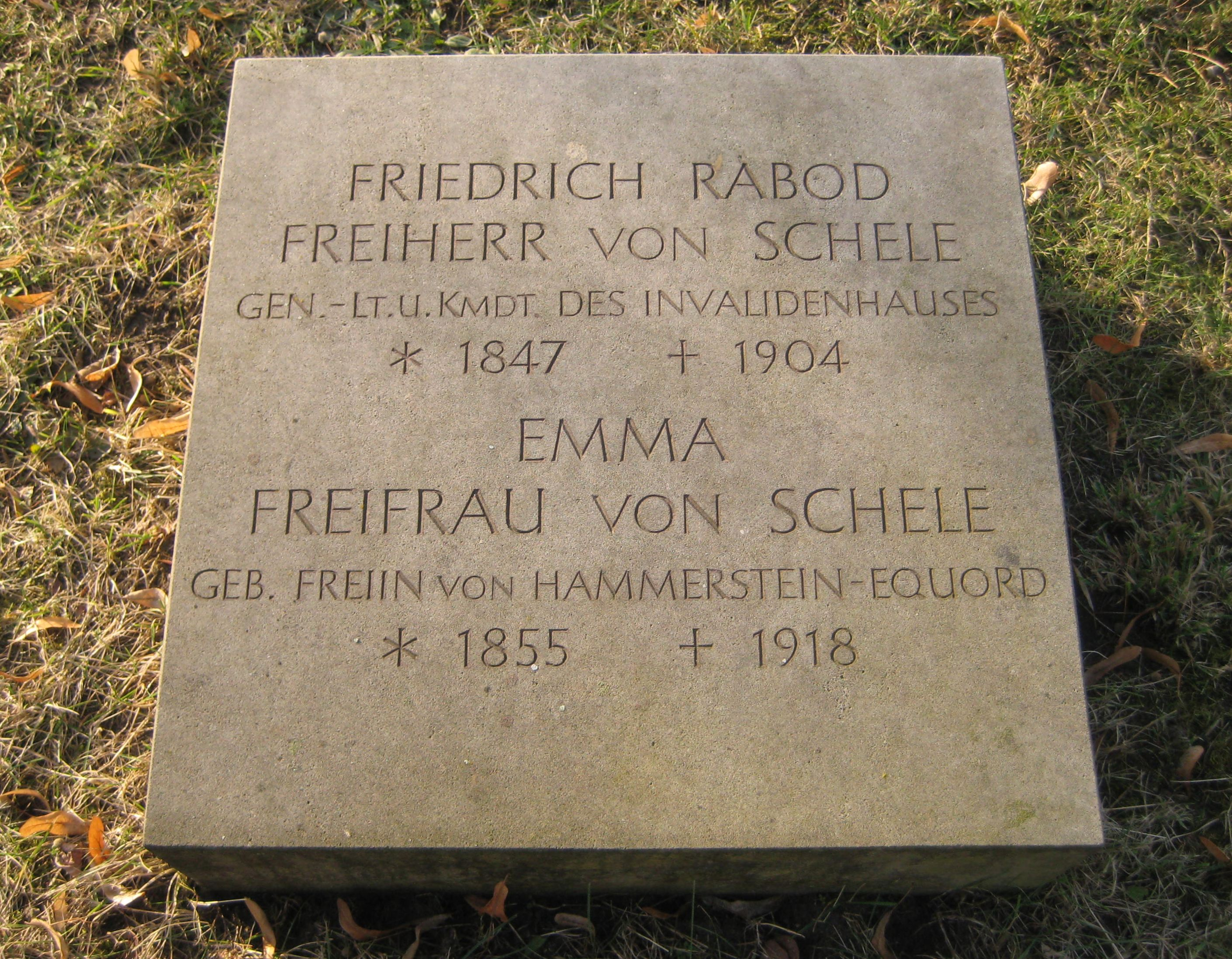 grave of Friedrich Rabod (1904) and Emma von Schele (1908) on Invalidenfriedhof cemetery in Berlin, stone from 2002